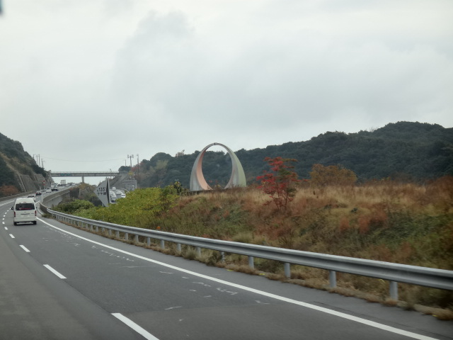 135E meridian monument by the roadside of Kobe-Awaji-Naruto Expressway.